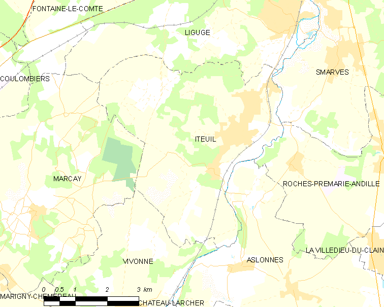 Map of French municipality Iteuil